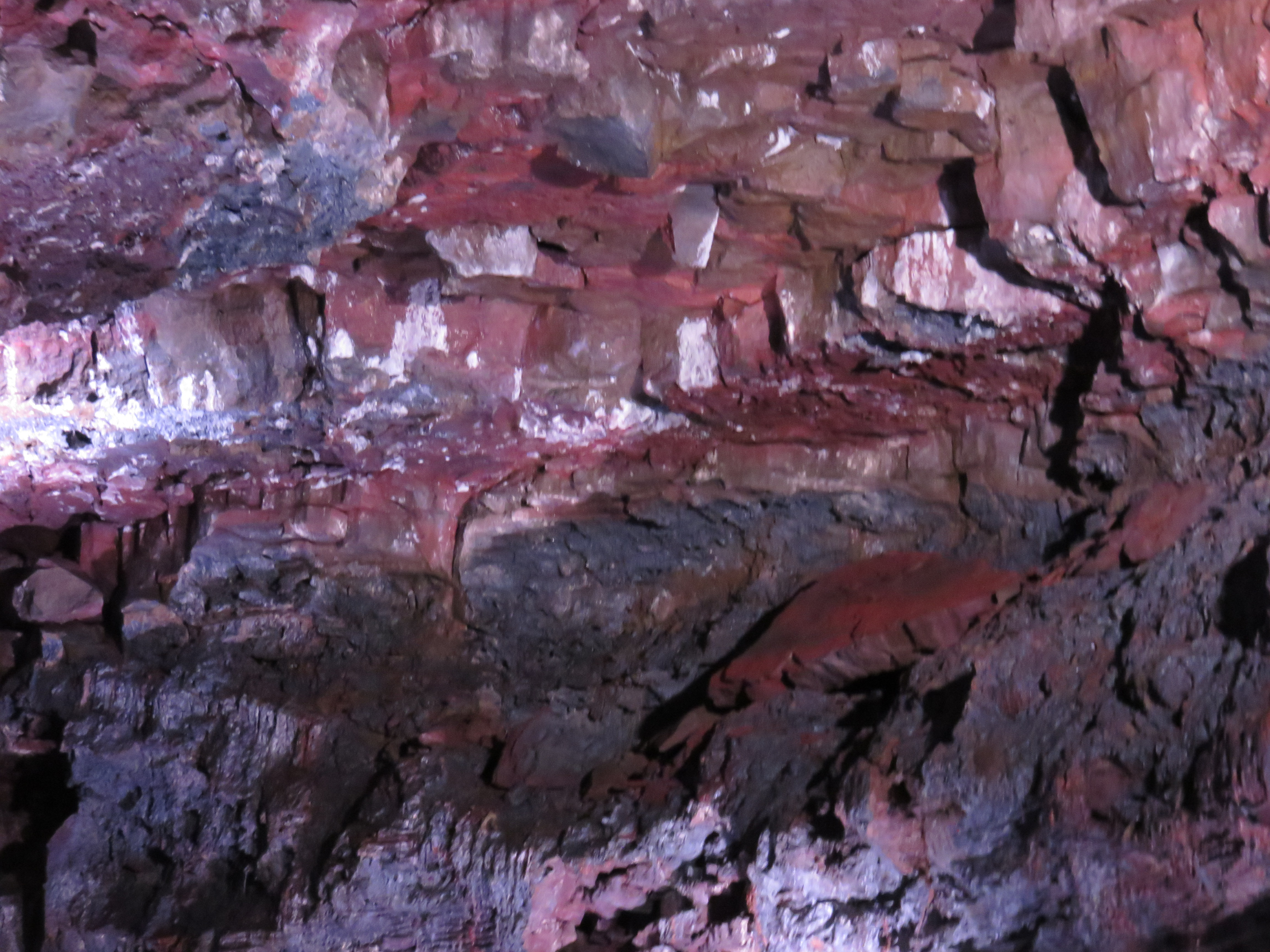 Interior of Raufarhólshellir lava tube in Iceland